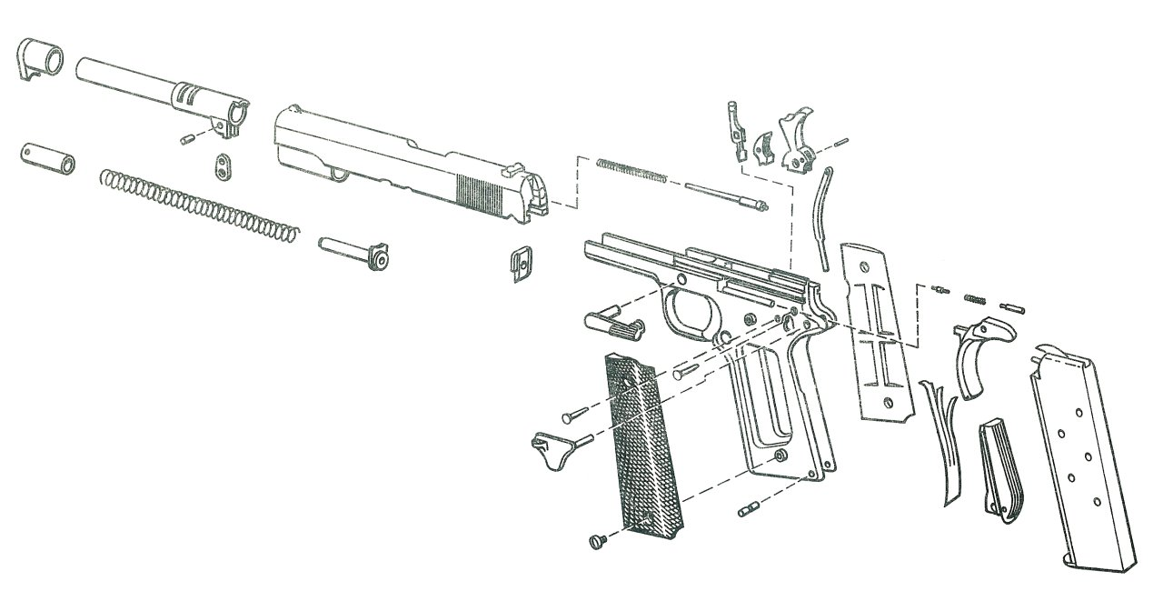 Exploded view of "Pistol Caliber .45, Automatic: M1911A1"